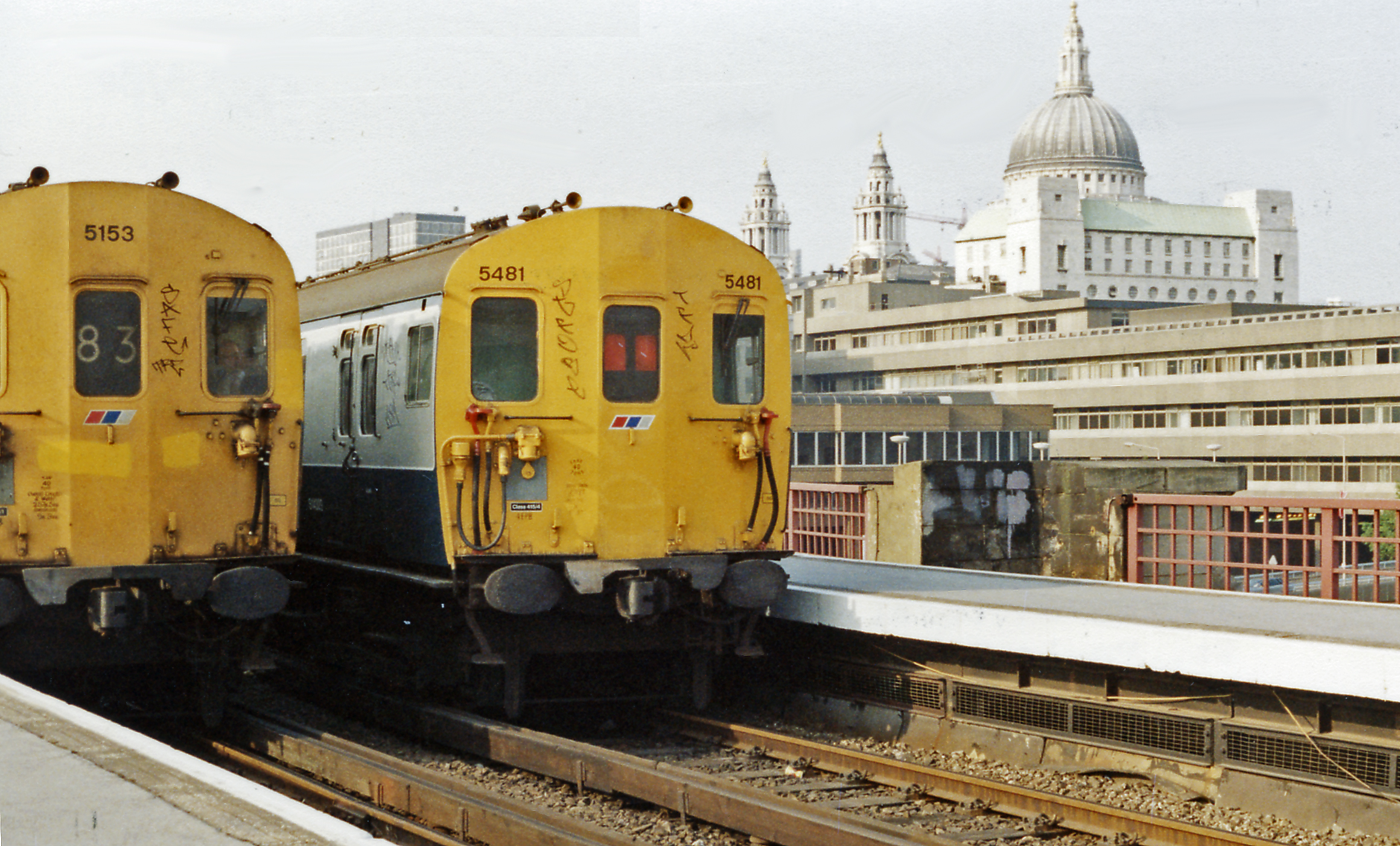 Terminal Platforms 1 - 3, with berthed 4EPB EMUs at Blackfriars Station, 1989. View NE, across to St Paul's Cathedral, from Platform 3.